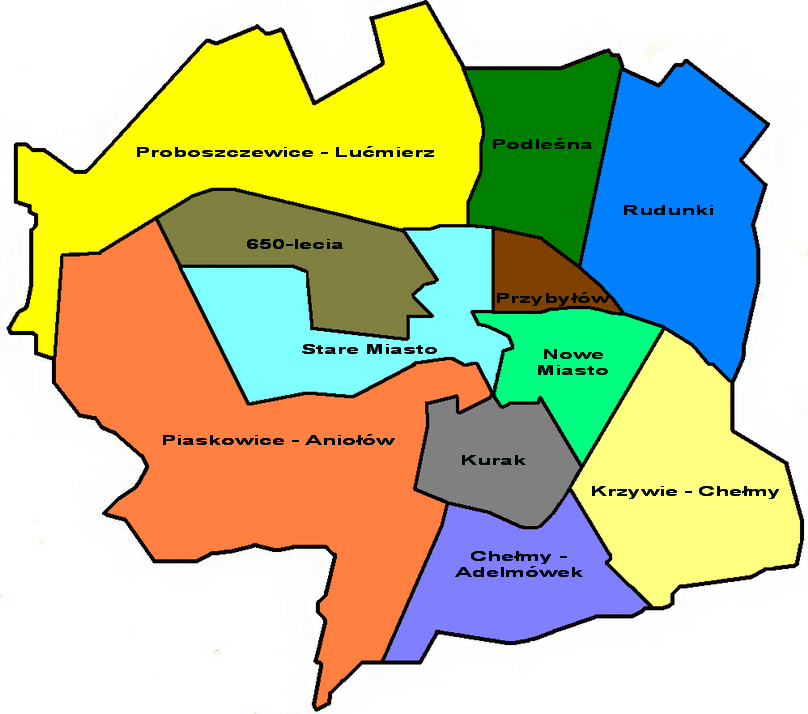 Districts of Zgierz